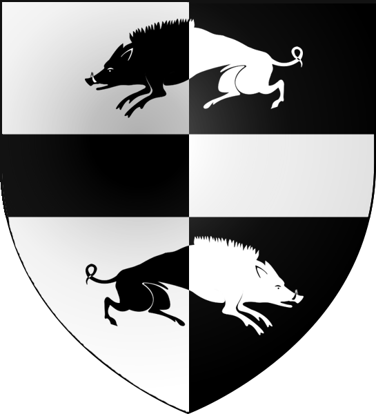 Coat of arms of the O'Sullivan.